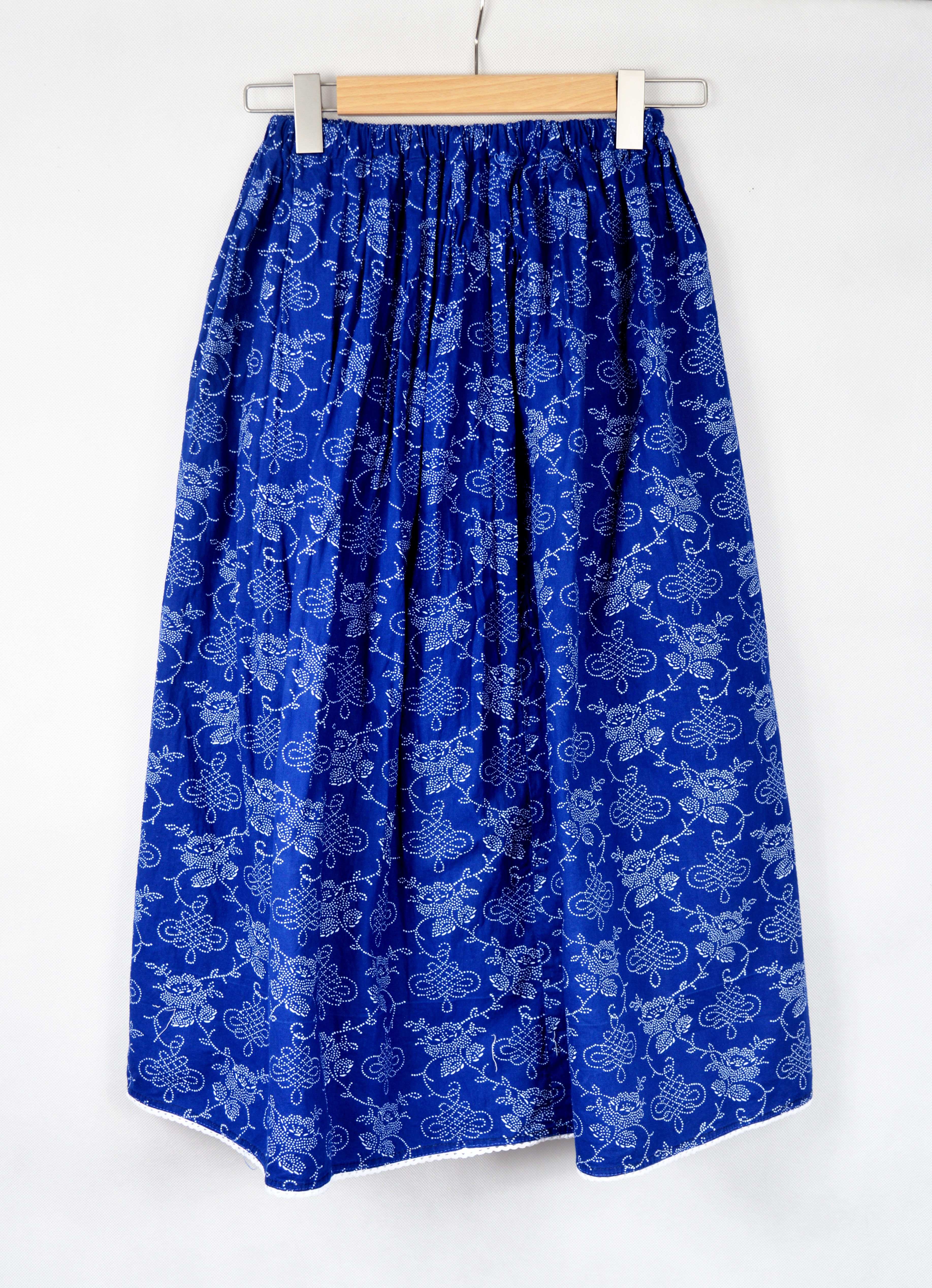 Skirt, Żywiec Beskids traditional style, contemporary make, 2016